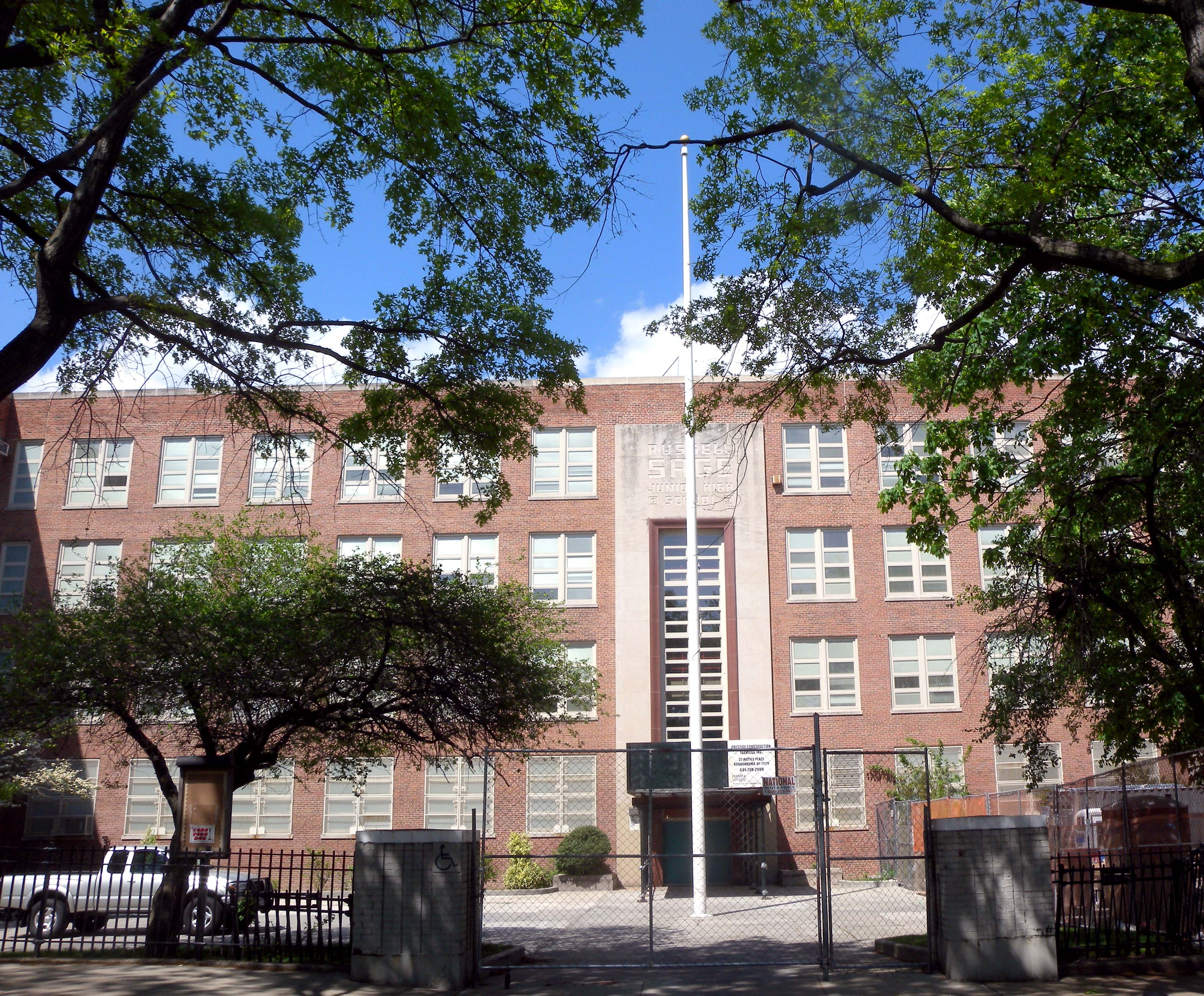 Looking north from Austin Street at Russell Sage Jr High on a sunny midday.